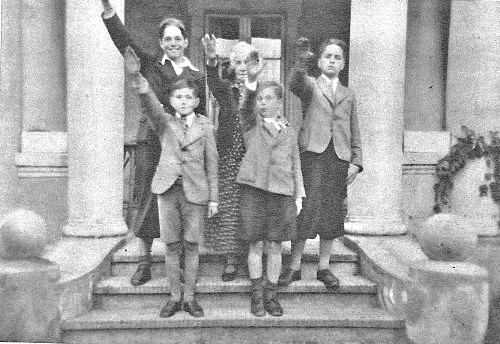 Spanish writer Sofía Casanova and her grandsons demonstrate support for the Nationalist faction during the Civil War in Spain; photo taken some time in 1936-1939 in Poznań.